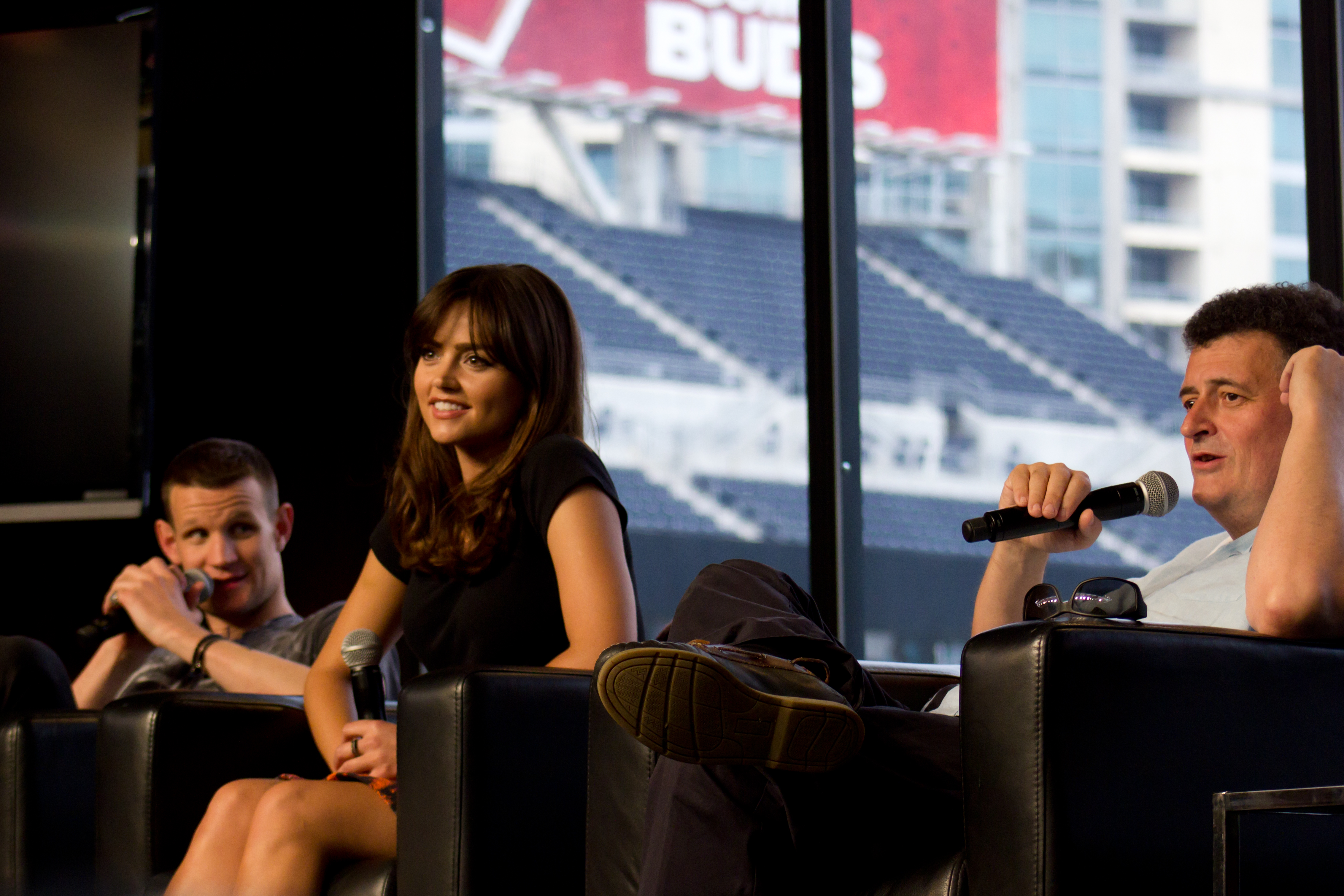 Matt Smith, Jenna Coleman & Steven Moffat